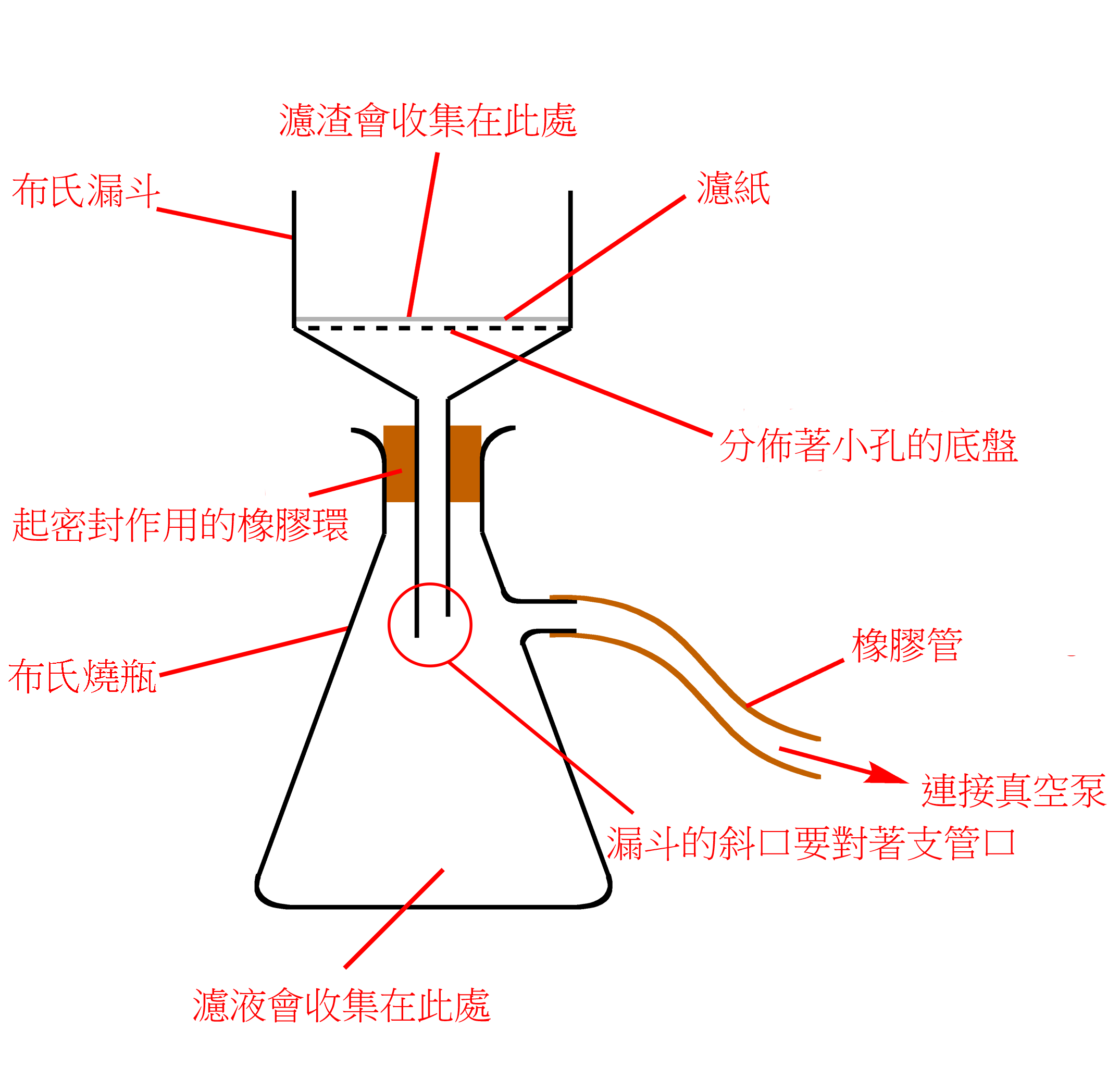 A Traditional Chinese version which is built upon the English version File:Vacuum-filtration-diagram.png by User:Benjah-bmm27